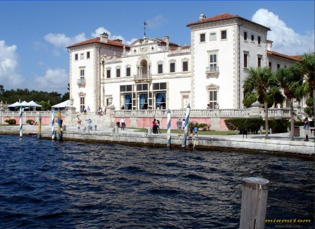 Photo by Tom Schaefer September 2006